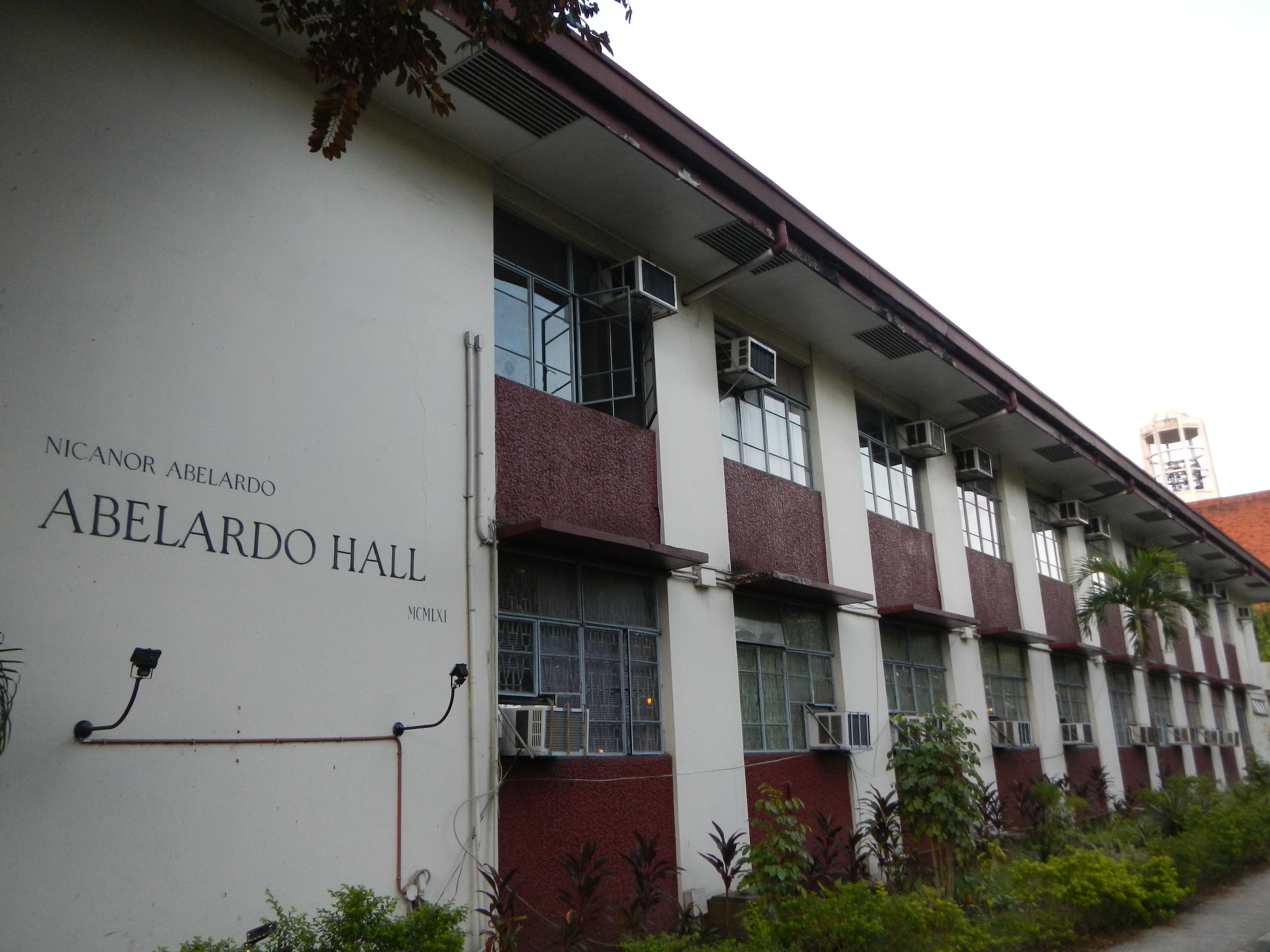 Nicanor Sta. Ana Abelardo Hall[1] (February 7, 1893 – March 21, 1934) was a Filipino composer known for his Kundiman songs, especially before the Second World War. University of the Philippines Diliman[2]The U.P. Diliman campus is connected to Commonwealth Avenue via the University Avenue. It stretches 800 meters where traffic enters the campus, or proceeds towards C.P. Garcia St., which connects Commonwealth Avenue to Katipunan Avenue. At the end of University Avenue, the Oblation Plaza of the Diliman campus faces the road. Behind it, the facade of Quezon Hall can be seen. The Gen. Antonio Luna Parade Grounds, or commonly known as the Sunken Garden, is a 5-hectare natural depression found on the eastern side of the campus and at the end of the Academic Oval circle. Sunken Garden is enclosed by the U.P. Diliman Main Library (also houses the School of Library and Information Studies), College of Social Sciences and Philosophy's Department of Psychology, College of Education, Student Activity Center/Vinzons Hall, College of Business Administration, School of Economics and College of Law. The Grounds was originally a property of the UP Reserved Officers' Training Corps when the campus was founded in 1949.